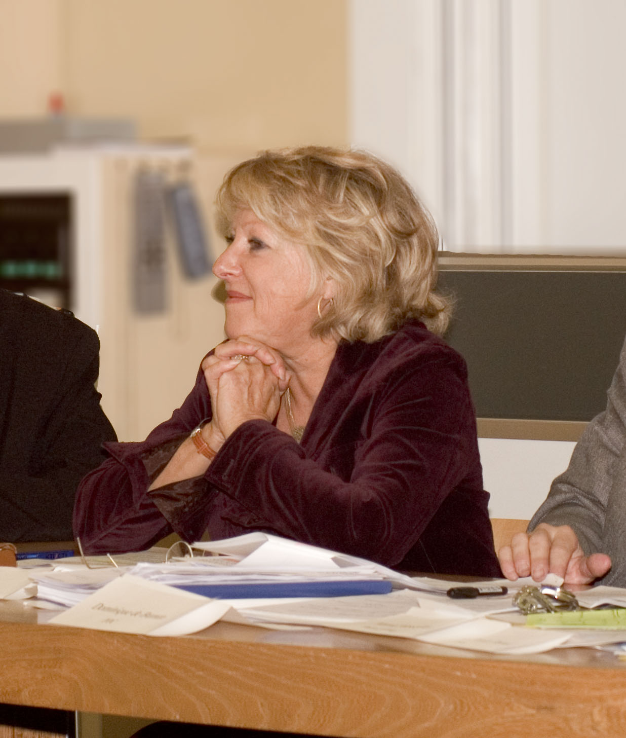 Christiane Langenberger during a conference in the University of Fribourg, Switzerland.